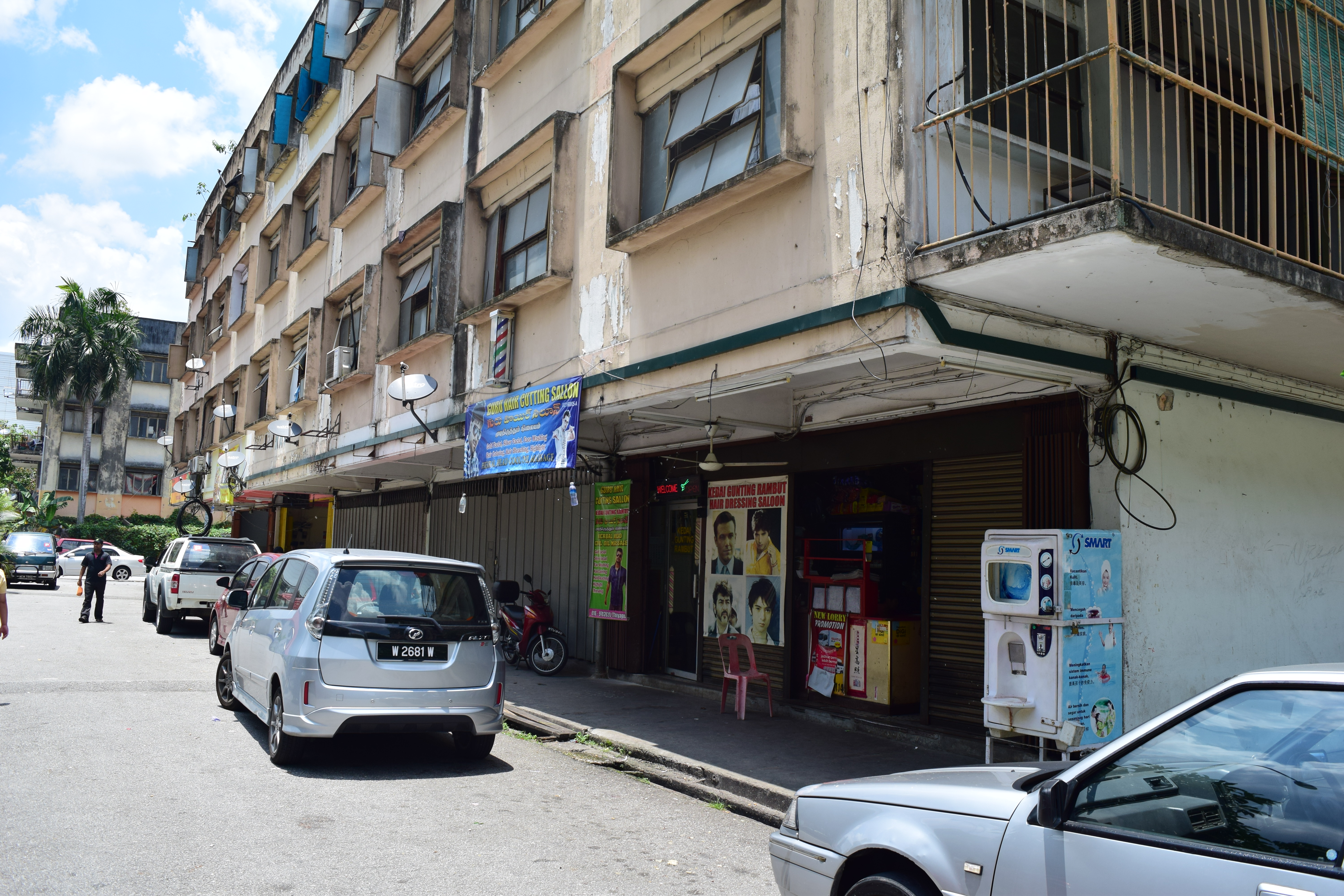 Shoplots located at Ground Floor